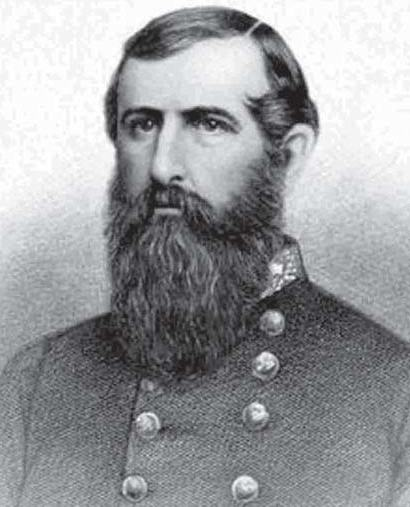 Divided Loyalties: A West Point graduate and veteran of the Seminole and Mexican American Wars, Pemberton was from Pennsylvania, but married a Southerner who influenced him to fight for the South. He commanded Confederate forces defending Vicksburg, eventually surrendering city and garrison on July 4, 1863. After the war he returned to Philadelphia, city of his birth.